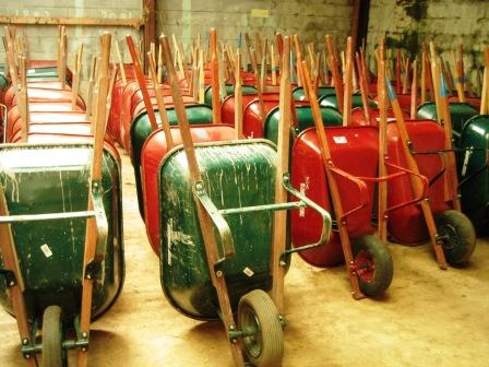 toolbank wheelbarrow tools community source